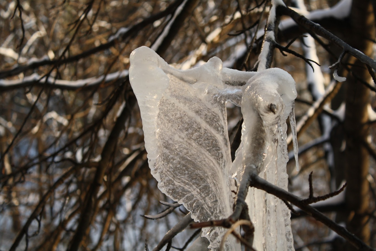 Ice on deciduous tree.jpg